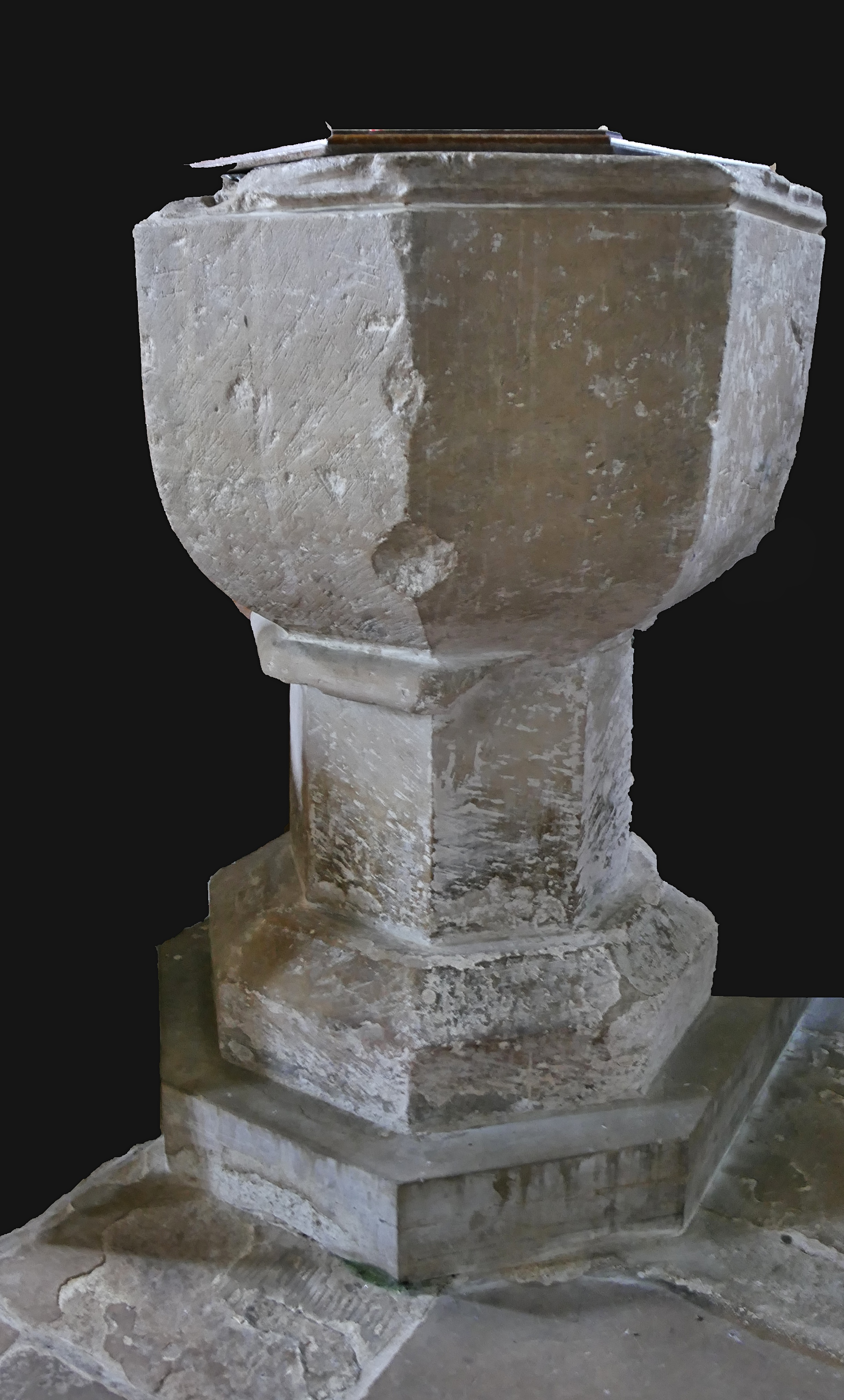 13th-century stone baptismal font in St Gregory's Minster, Kirkdale, North Yorkshire